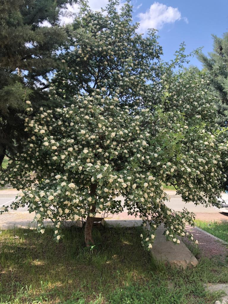 Crataegus, Kurdistan 2020-05-21 at 10.10.38 PM